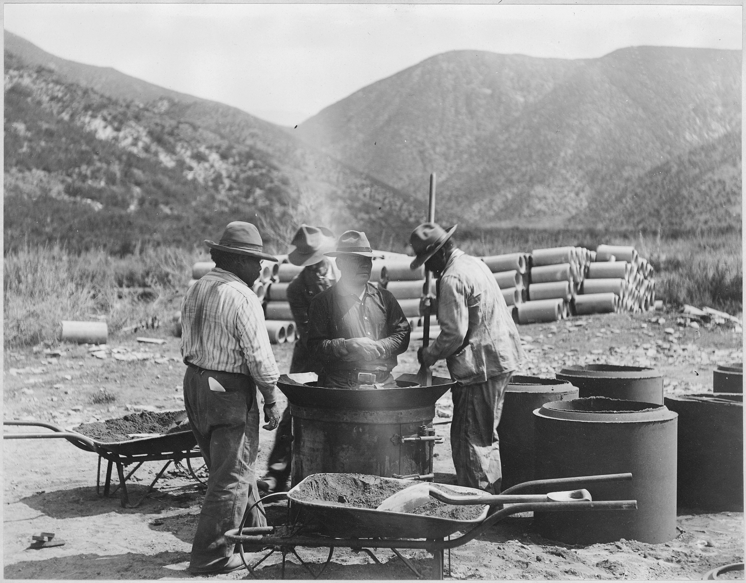 Scope and content: Reports contain information on irrigation issues for a variety of Indian Agencies under the control of the Portland Area Office including agencies in Idaho, Oregon, Washington, California, Utah, and Arizona.